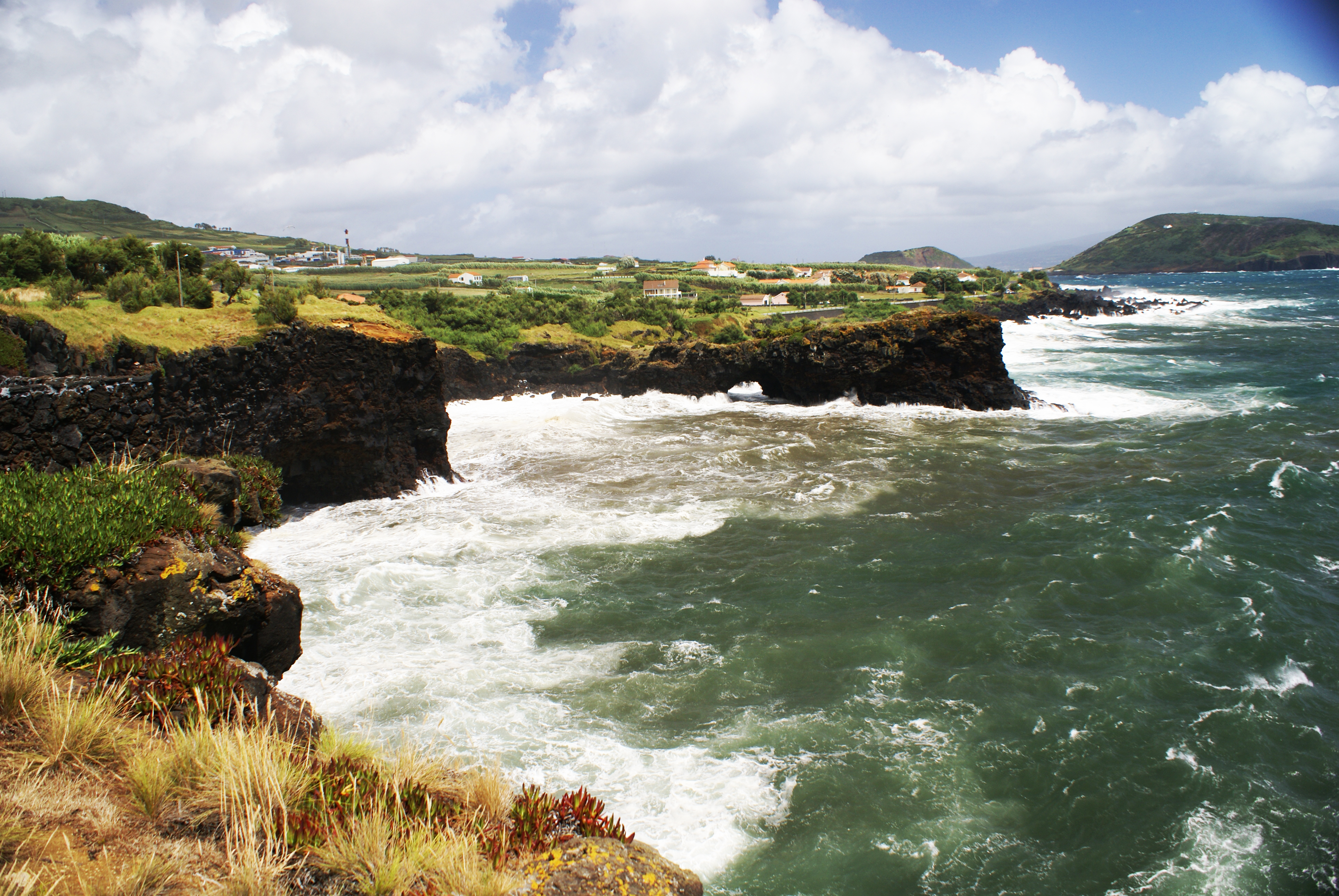 Miradouro da Lajinha, 2 Lajinha, concelho da Horta, ilha do Faial, Açores, Portugal